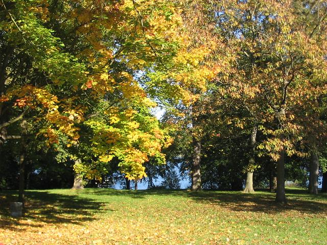 Part of river Havel in Berlin-Gatow